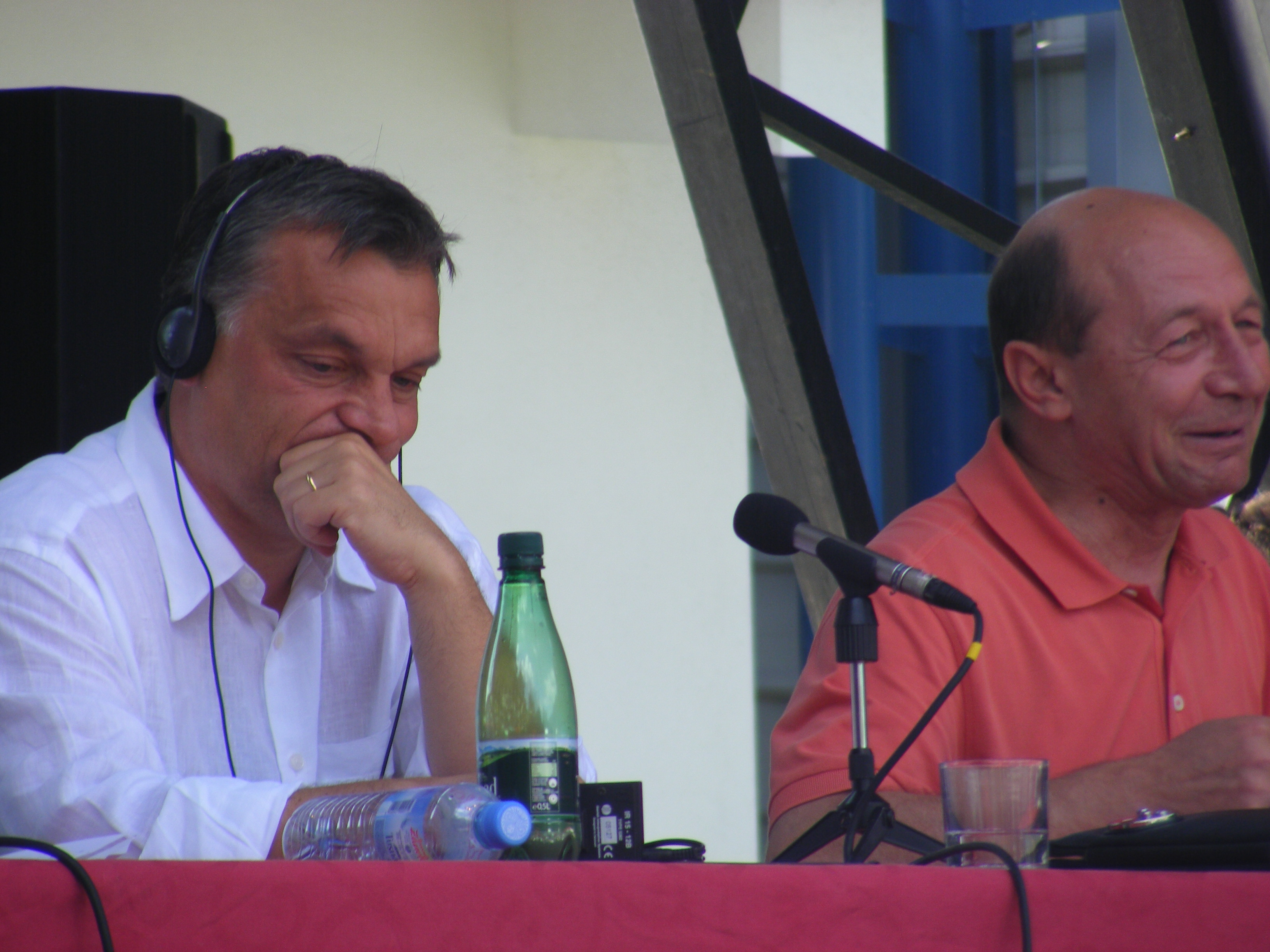 Viktor Orbán and Traian Băsescu in 2010